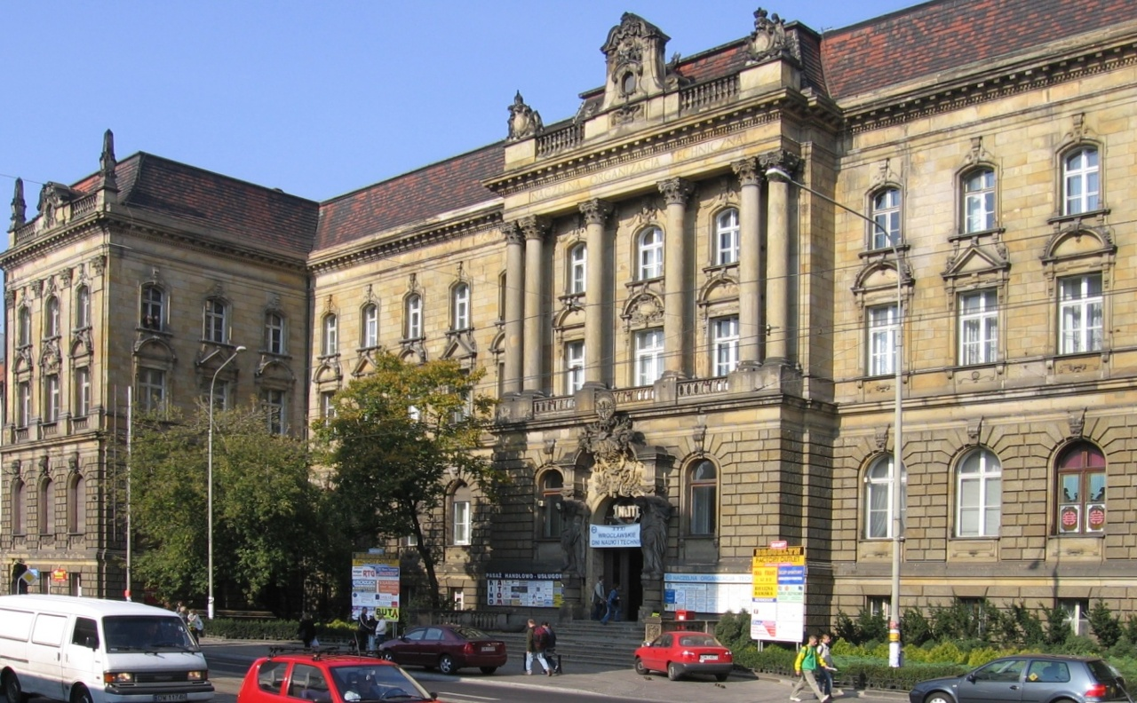 Wrocław, Poland Piłsudskiego street, Head Technical Organization building, former Silesian Parlament